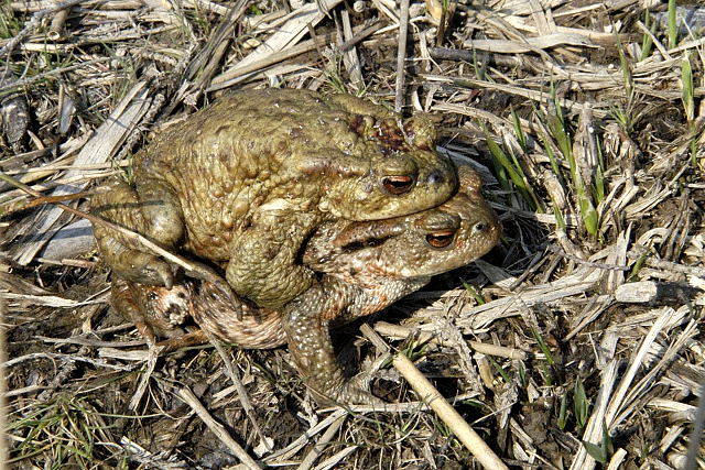 Bufo bufo couple, from Commanster, Belgian High Ardennes (50°15'20``N,5°59'58``E)